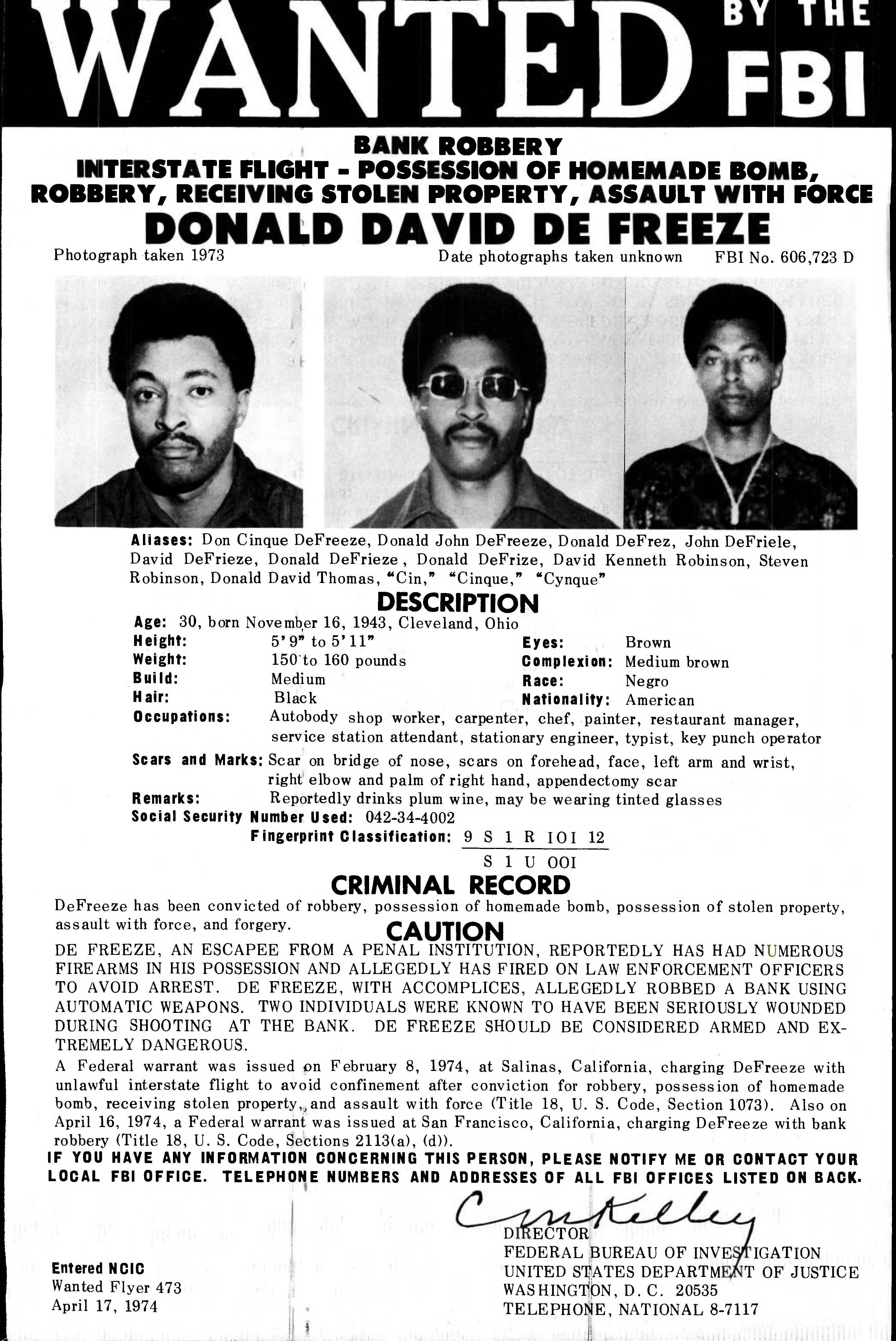 An FBI wanted poster for Donald David DeFreeze, leader of the Symbionese Liberation Army.